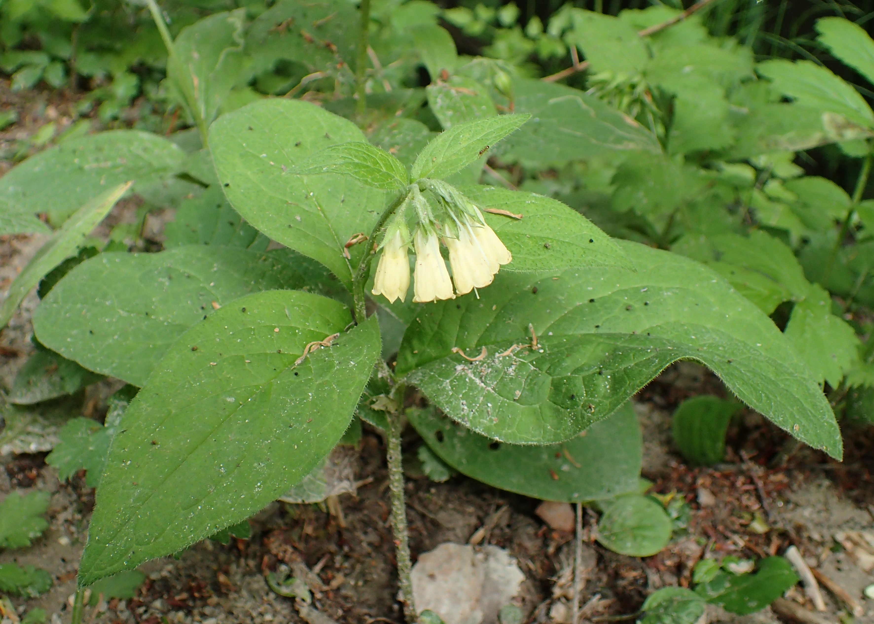 Symphytum tuberosum on Vitosha Mt. near Sofia, Bulgaria